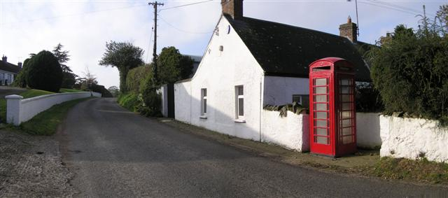 Road at Donaghey Looking west.